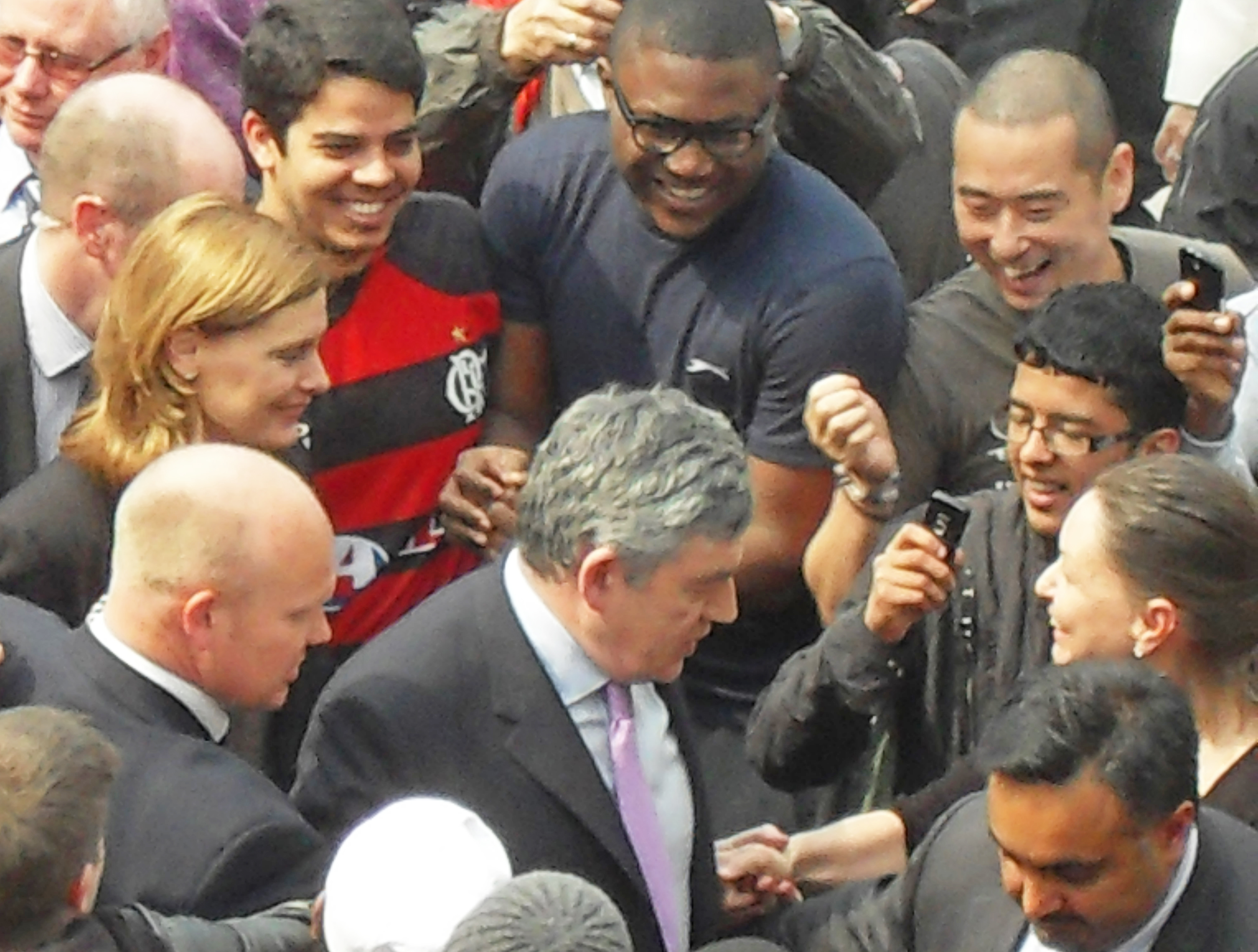 Gordon and Sarah Brown at the University of Bradford the day before the 2010 General Election. Taken on Wednesday the 5th of May 2010.